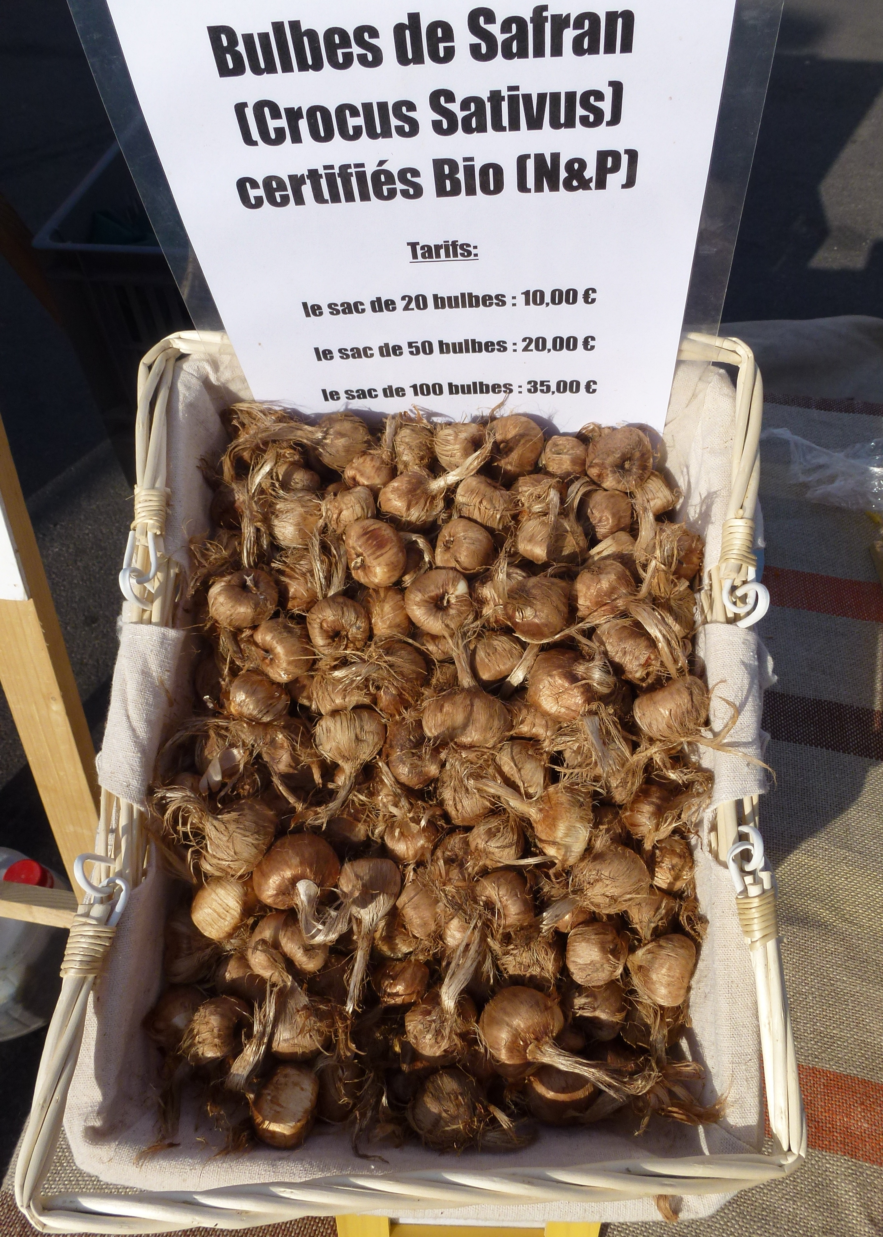 Bulbs of Saffron (Safran) plants for vegetative reproduction